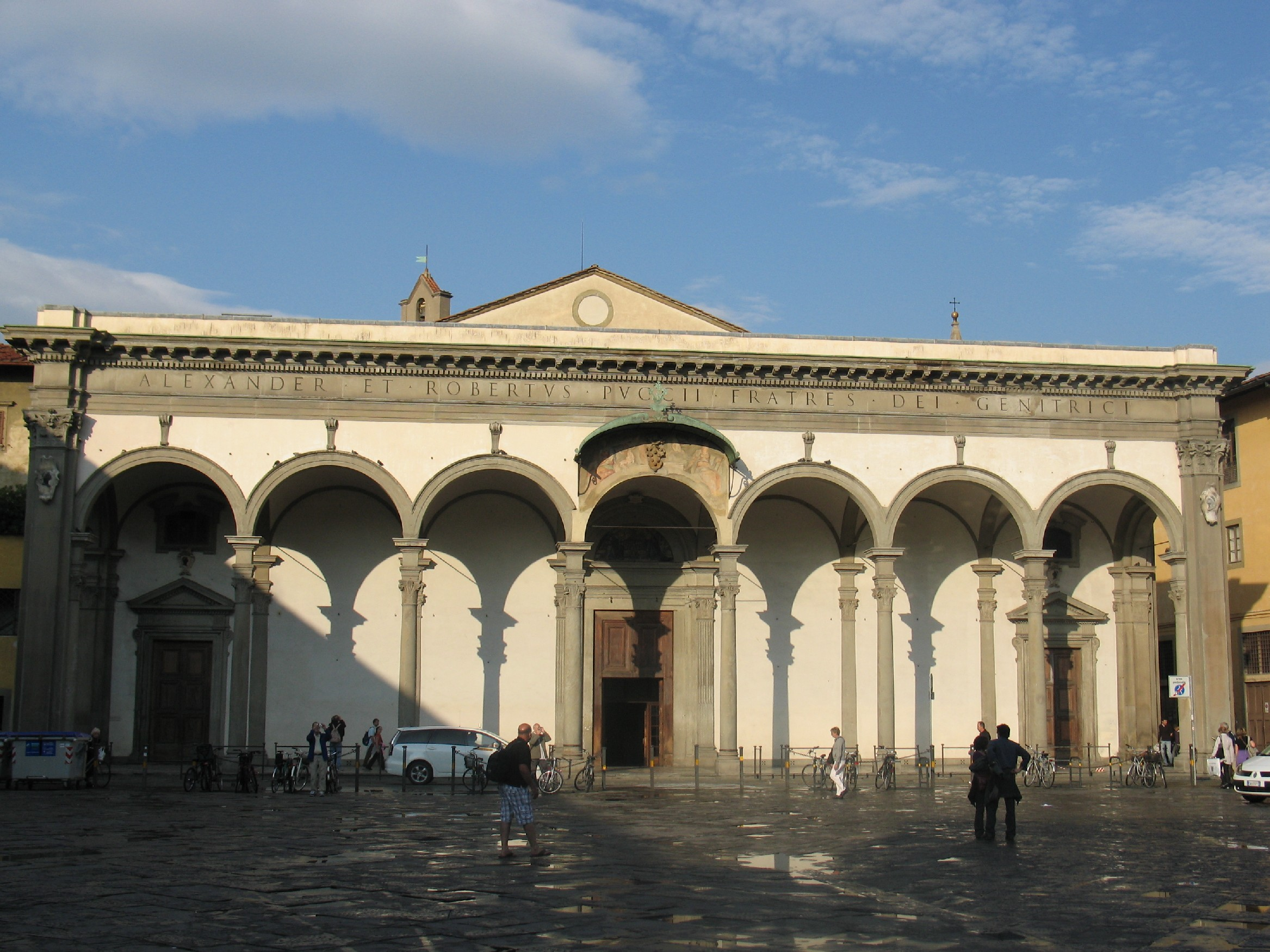 Santissima Annunziata in Florence